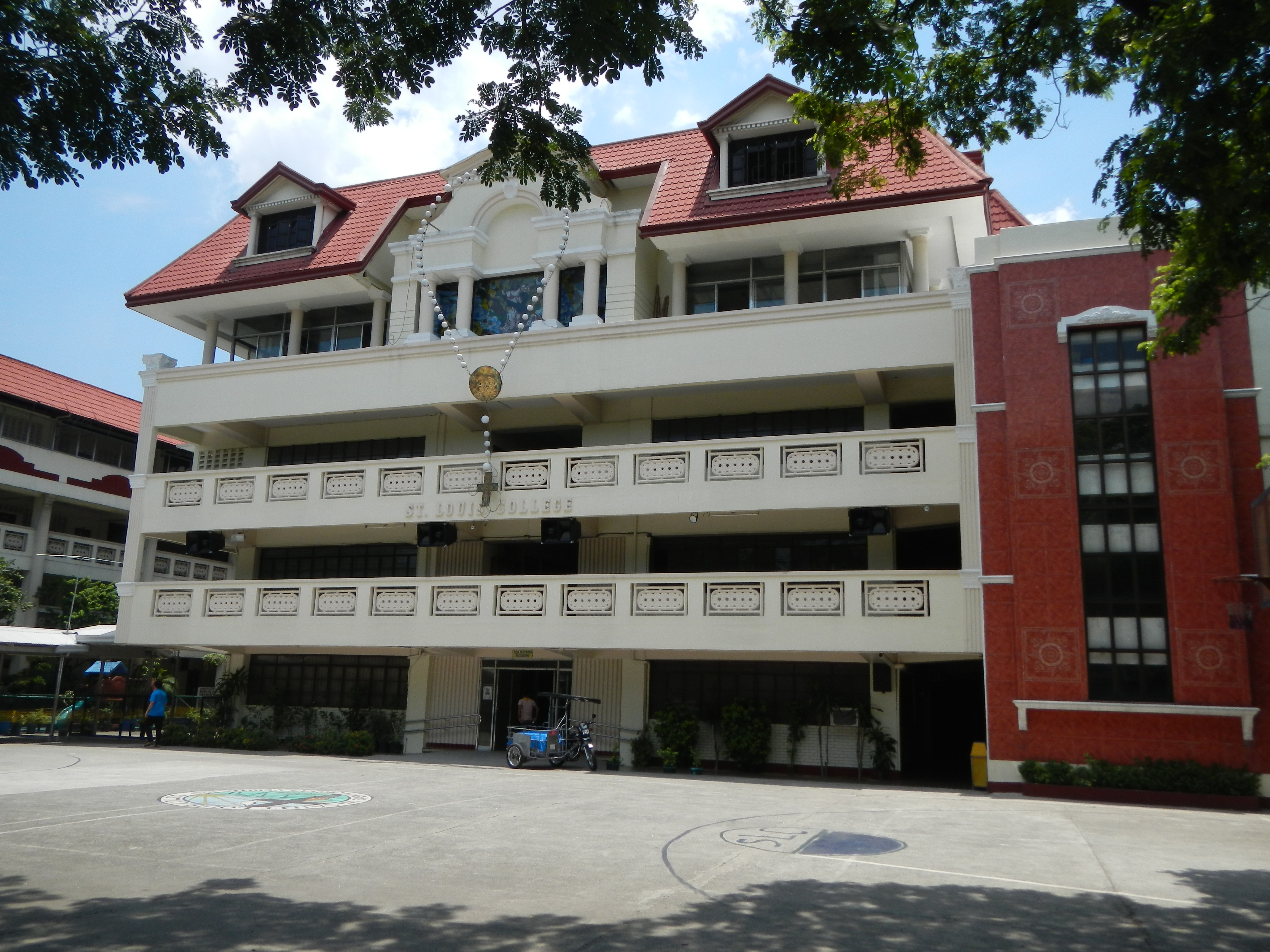 St. Louis College of Valenzuela known as Philippine College of Technological Resources (PCTR) under Our Lady of Fatima University, Maysan Road, Barangay Maysan, Valenzuela City (Valenzuela, Lists of barangays in Philippine cities and municipalities, List of barangays in Valenzuela).